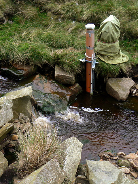 Water monitoring station This is part of a project run by the University of Nottingham in conjunction with Severn Trent Water. The stream is part of the Derwent Valley Reservoirs catchment.